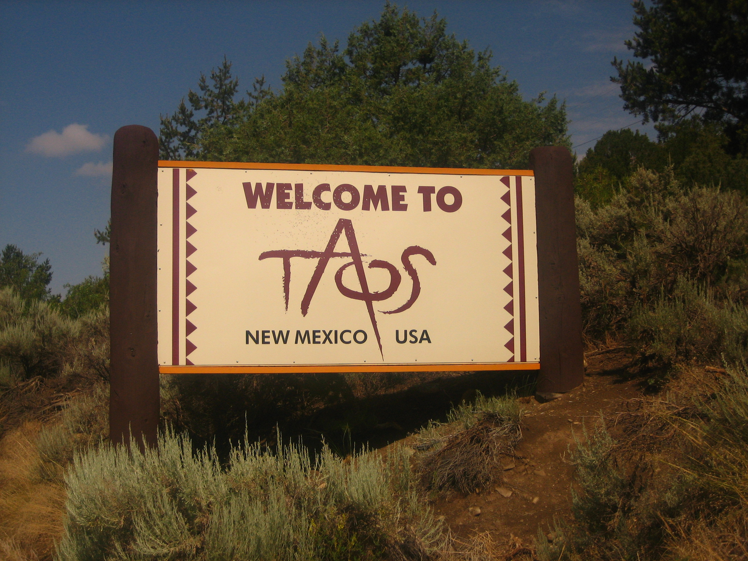 I took photo in July 2009.